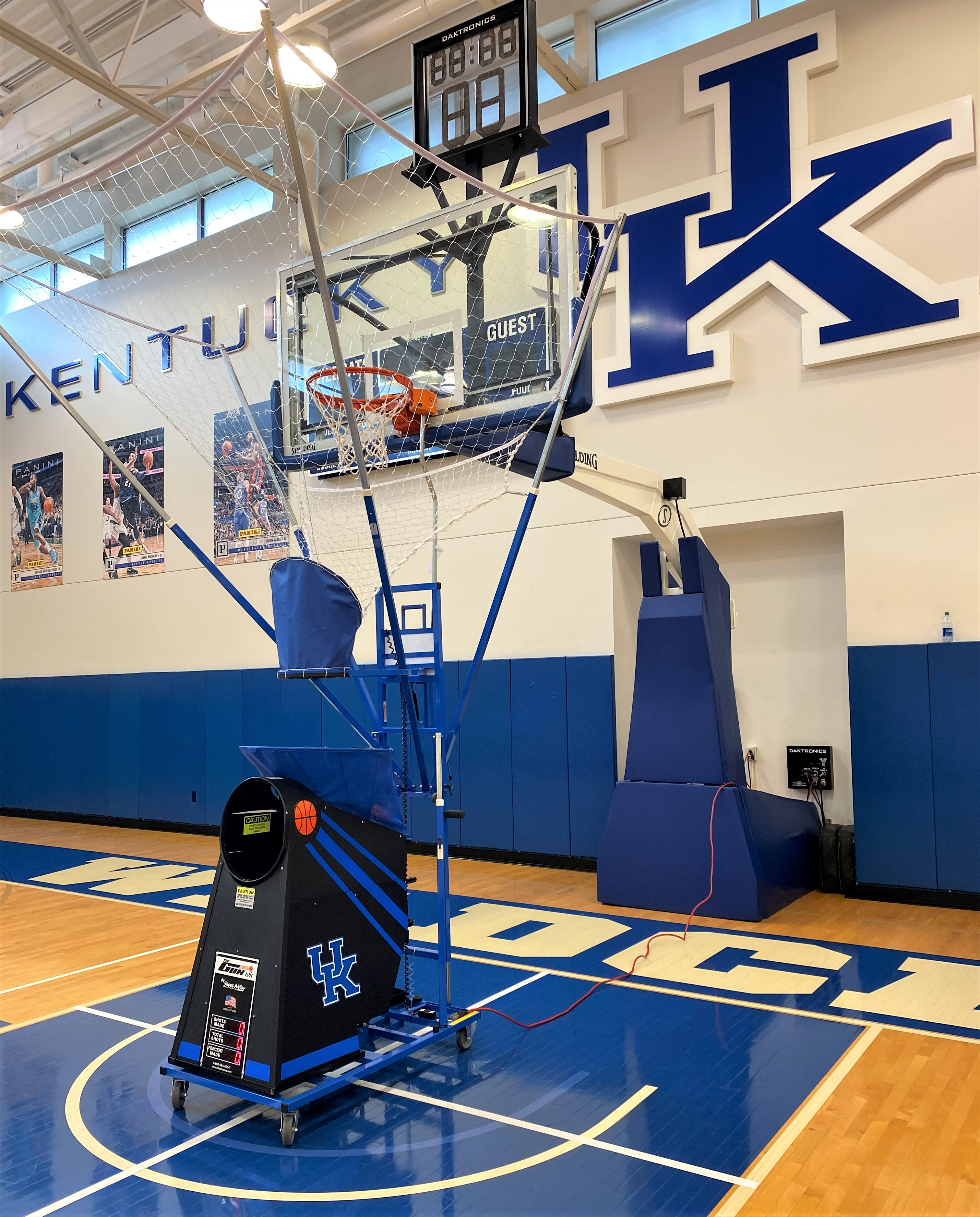 The Gun 10K Basketball Shooting Machine shown at the University of Kentucky